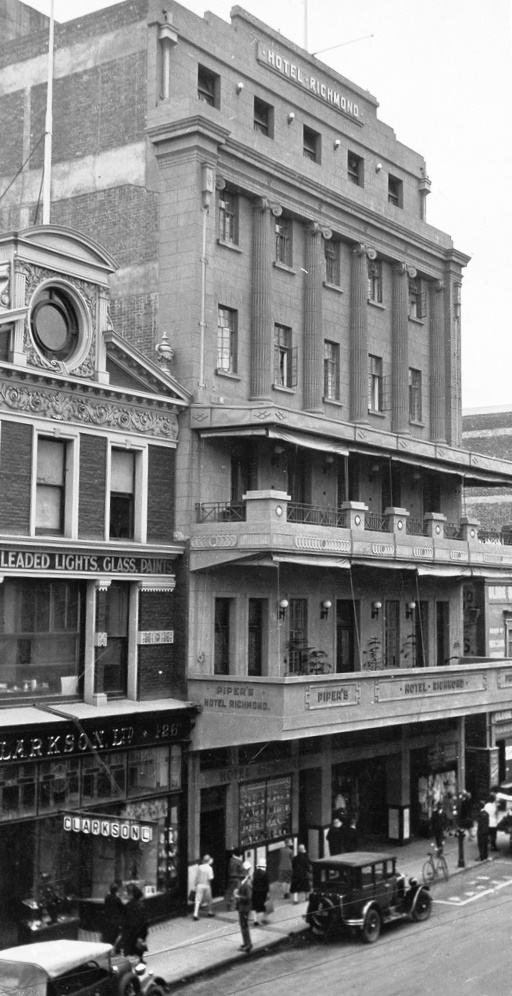 Rundle Street Adelaide, in 1929. The large building is the Hotel Richmond; to the left is Clarkson's glass